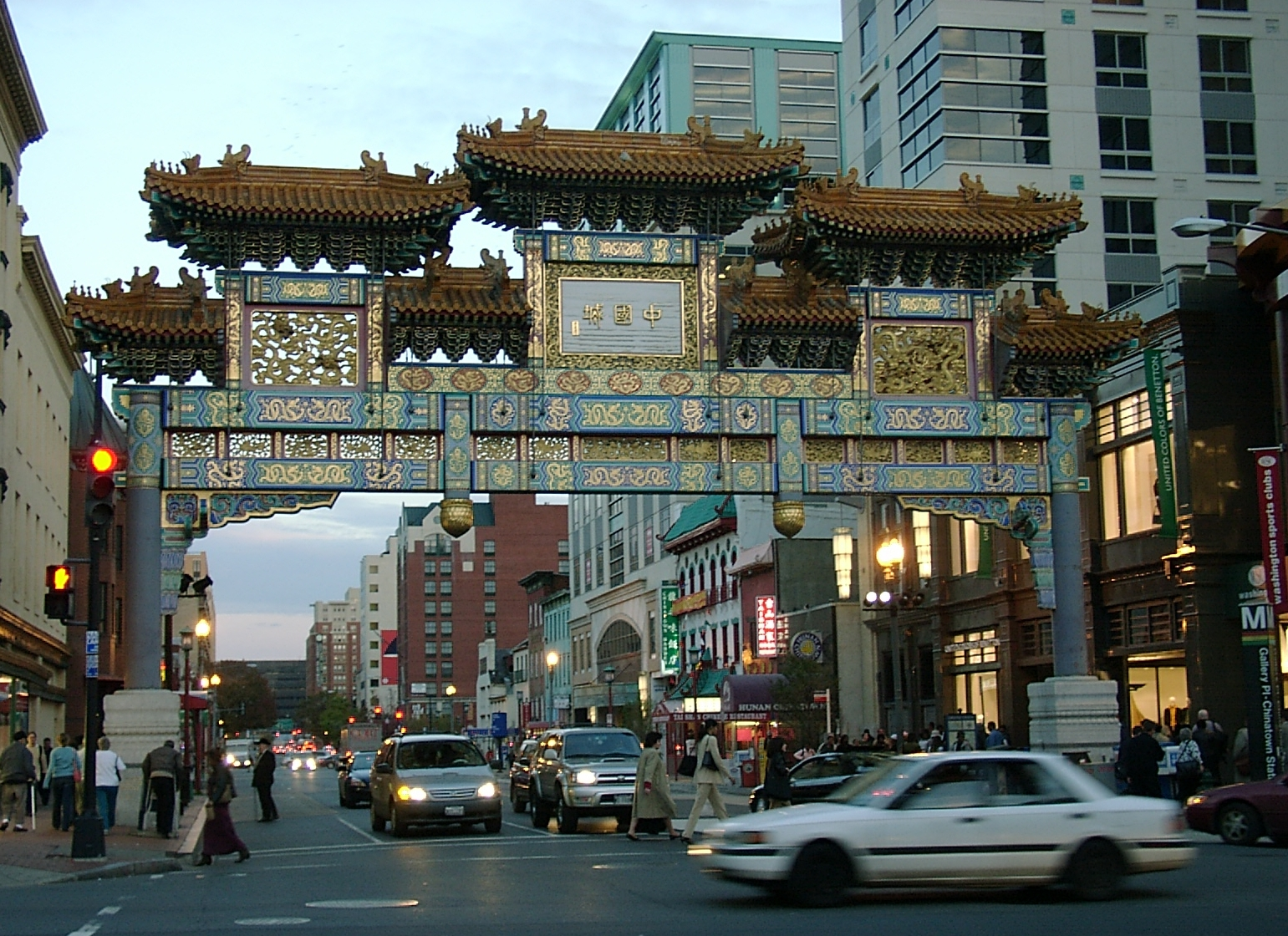 Chinatown in Washington, DC at evening twilight